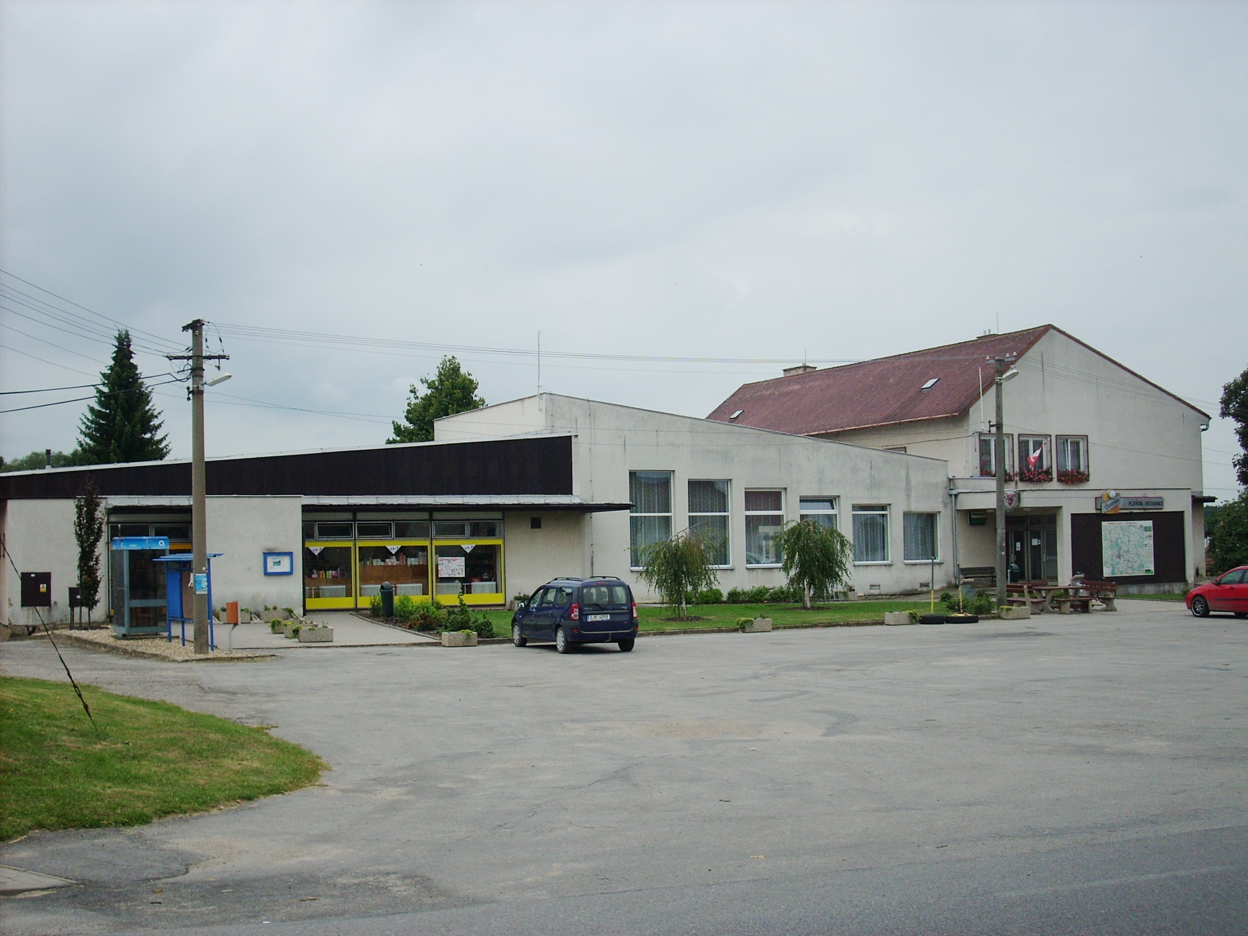 Ždírec (Jihlava District) - multi-purpose building